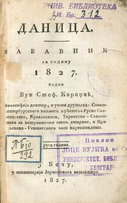 Danica magazine for 1827.